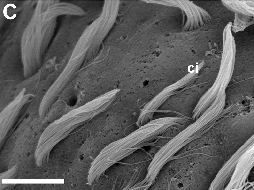 A higher-power scanning electron microscopy (SEM) micrograph showing of the of groove epithelium of rhinophore tip of Aplysia californica showing numerous bunched cilia extending from a common pore. Also evident are pores lacking obvious bunched cilia. ci - numerous long cilia. Scale bar is 10 μm.